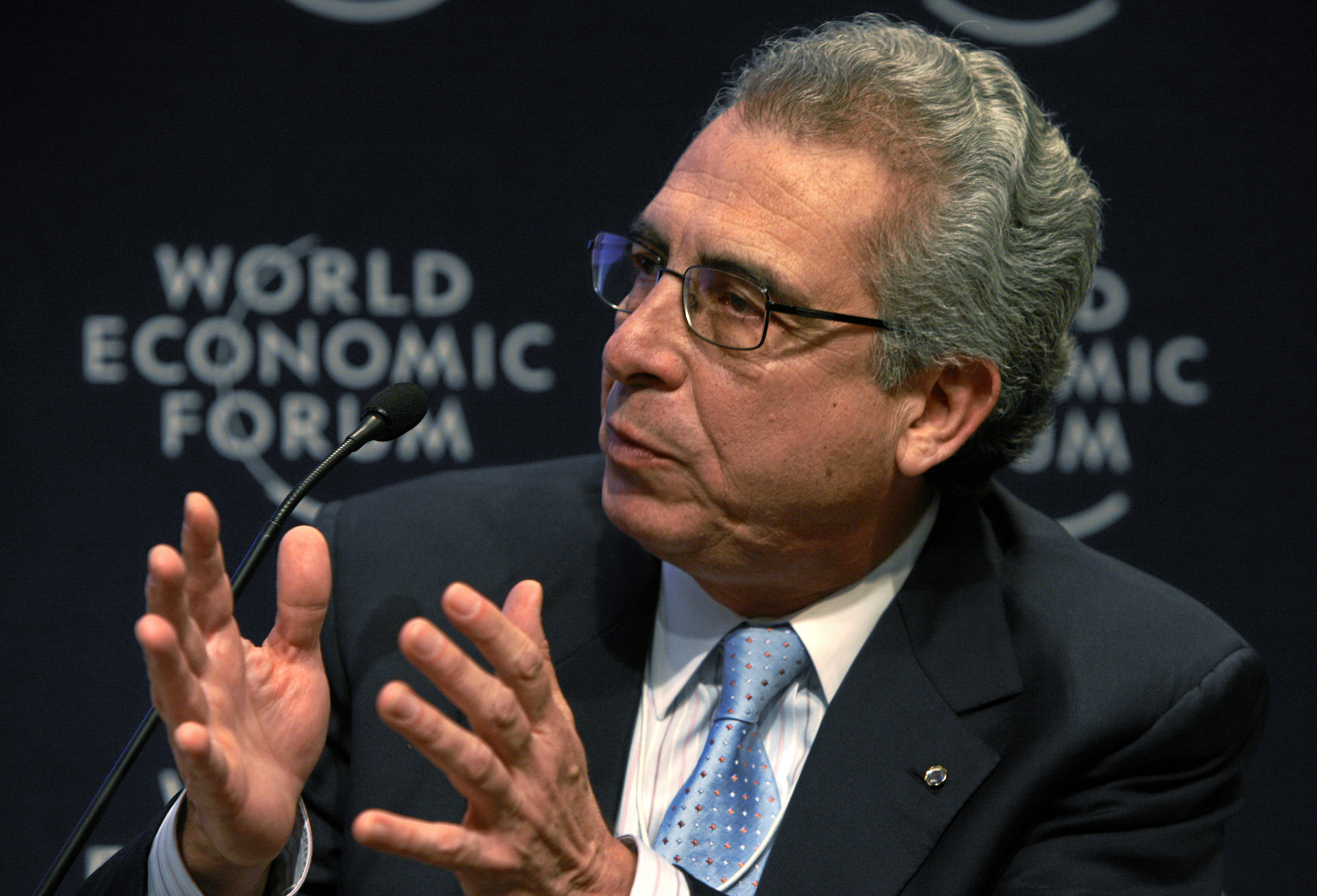 DAVOS-KLOSTERS/SWITZERLAND, 28JAN09 - Ernesto Zedillo Ponce de Leon, Director, Yale Center for the Study of Globalization, Yale University, USA; Member of the Foundation Board of the World Economic Forum; Chair, Global Agenda Council on the Global Trade Regime, captured during the session 'Update 2009: The Return of State Power' at the Annual Meeting 2009 of the World Economic Forum in Davos, Switzerland, January 28, 2009. Copyright by World Economic Forum by Christof Sonderegger